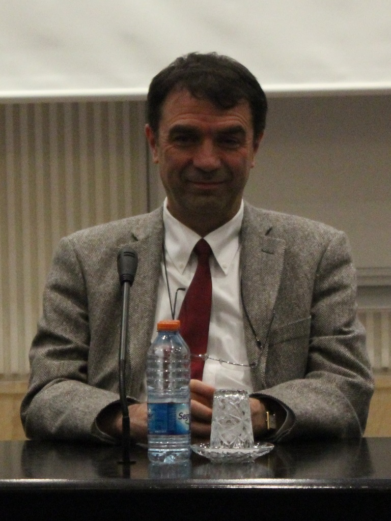 Cropped from Bülent Özgüç & Abdullah Atalar - Bilkent - 1.4.13a.jpg